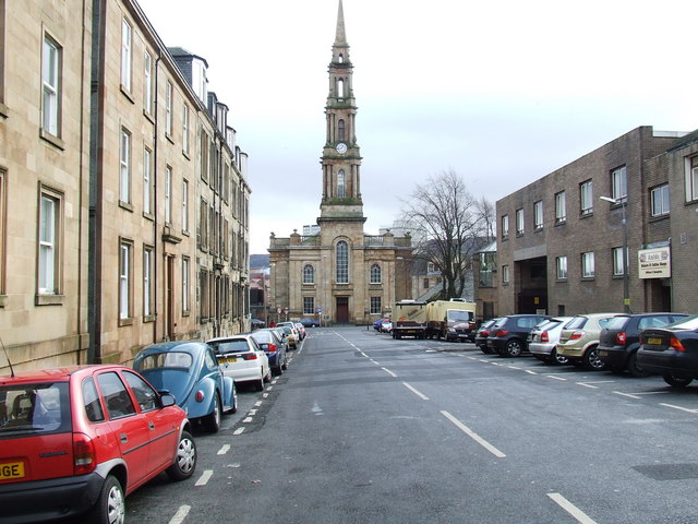 St Luke's Church of Scotland Viewed from Brisbane Street.